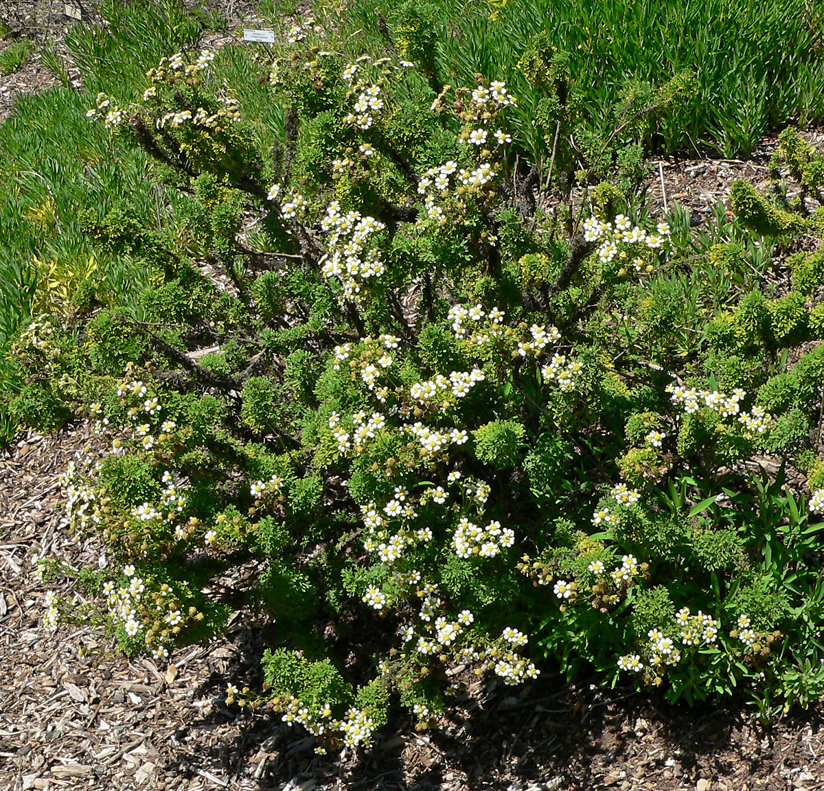 Bahia ambrosioides at the University of California Botanical Garden, Berkeley, California